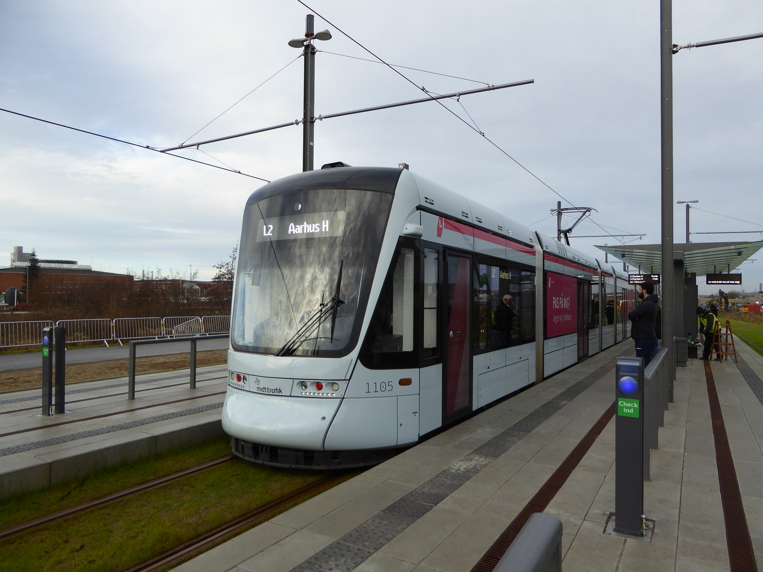 A Stadler Variobahn of Aarhus Letbane returns from Universitetshospitalet Station as the first car with normal passengers on the opening day of Aarhus Letbane.